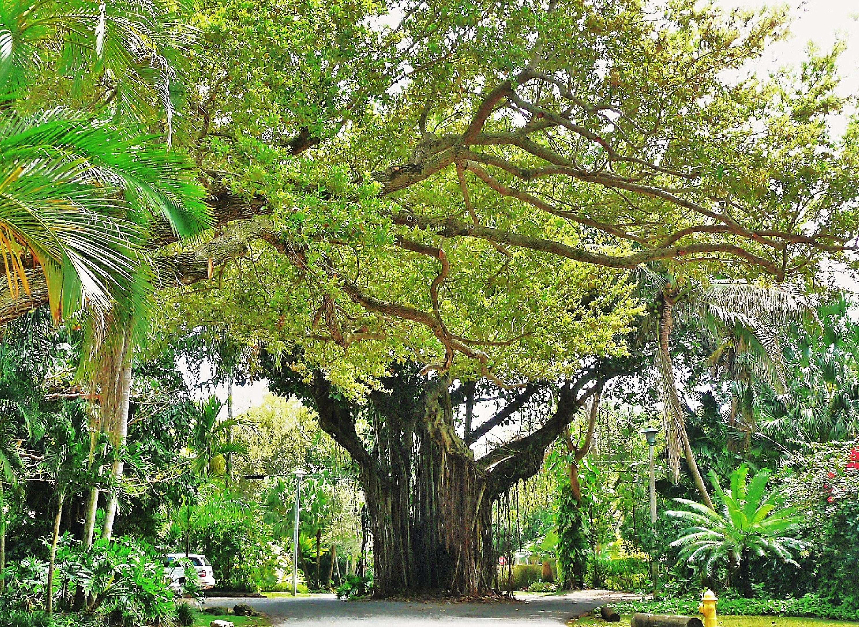 Digital photo taken by Marc Averette. Typical street in Coconut Grove, south of Downtown Miami, Florida, United States.